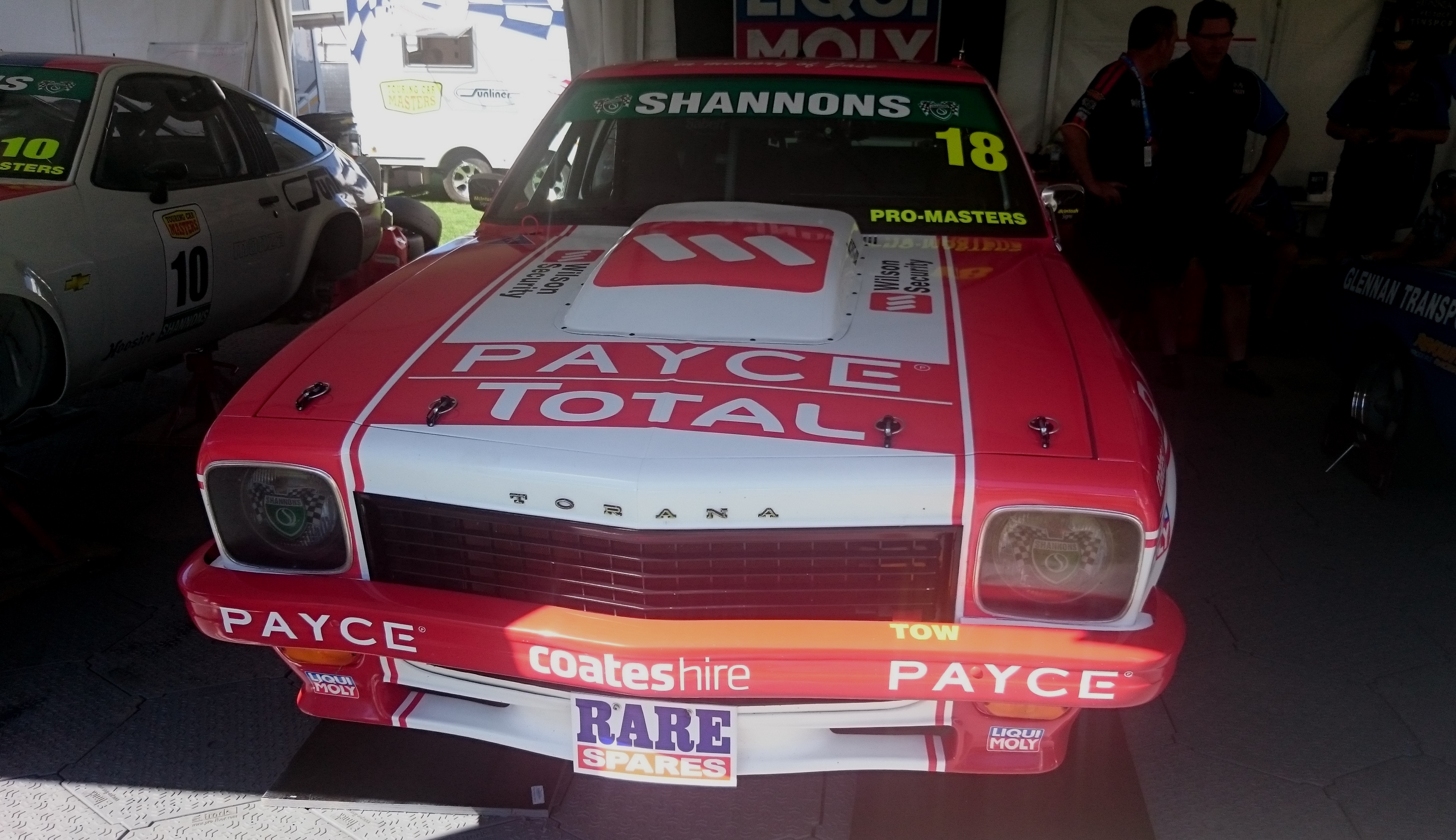 The Holden Torana SL/R 5000 of John Bowe at the Adelaide Parklands Circuit for Round 1 of the 2016 Touring Car Masters.